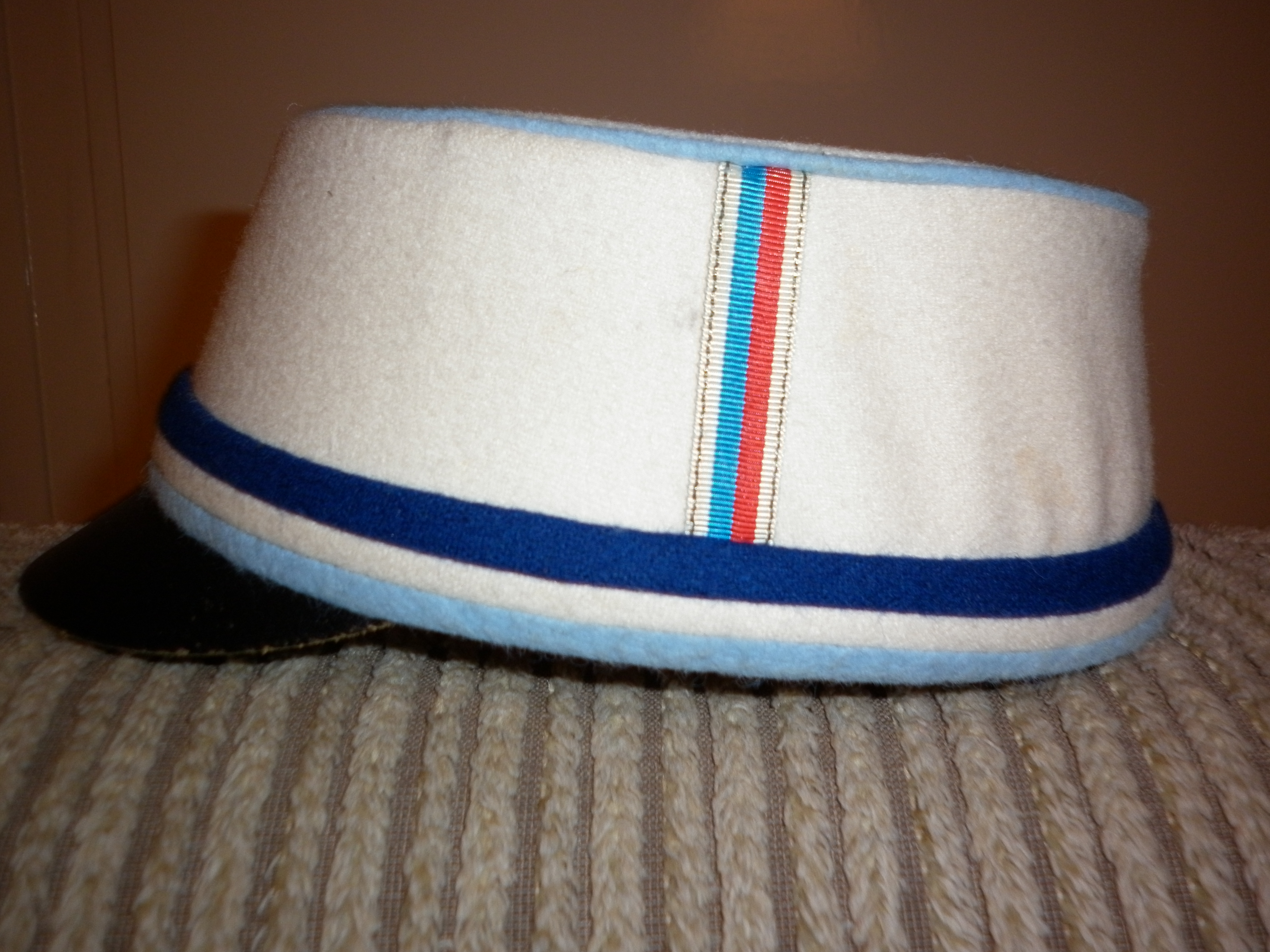 Cap of Sängerschaft zu St. Pauli Jena et Burgundia Breslau in Münster with Gösch